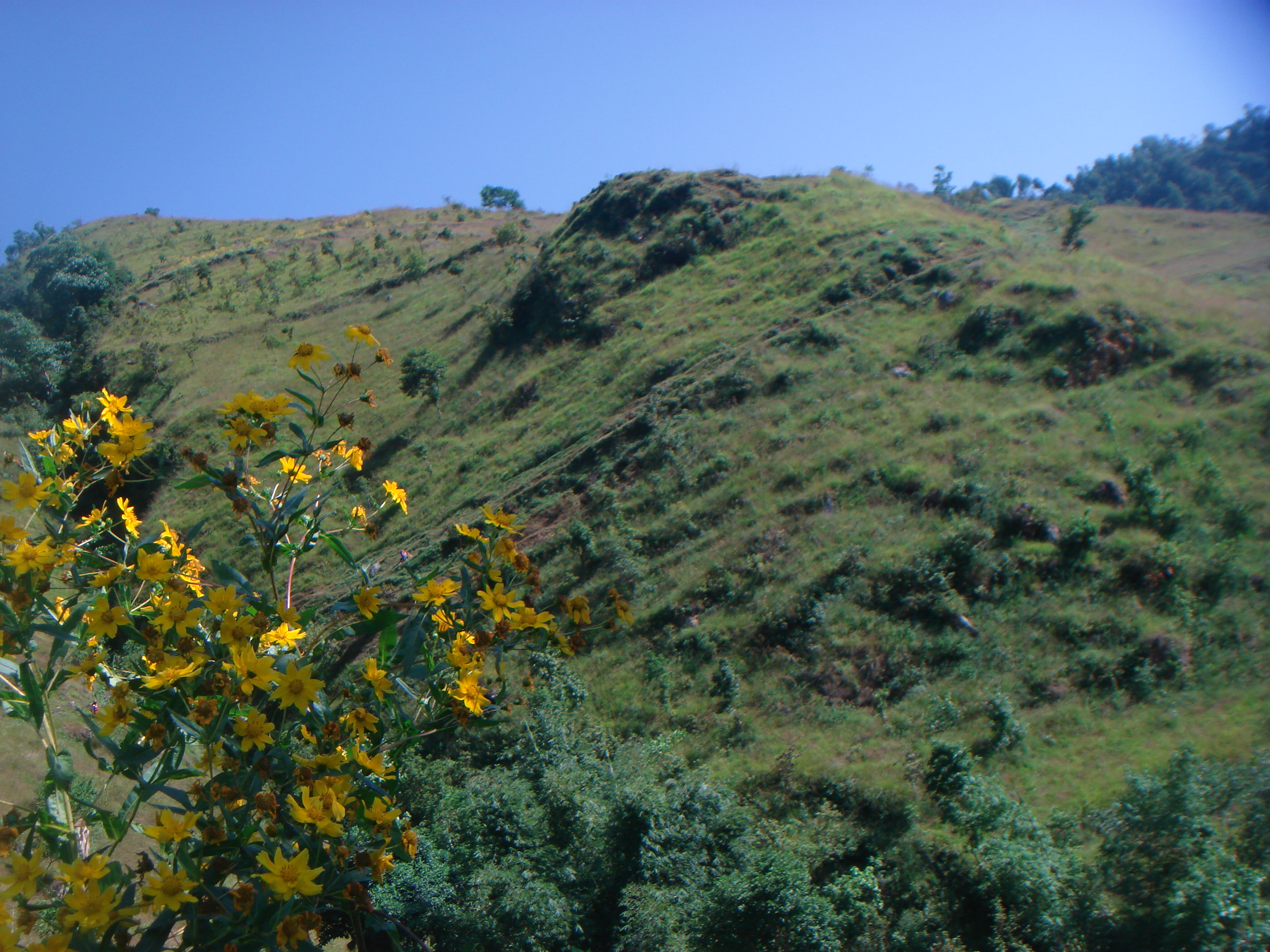 A view of Okaldhunga